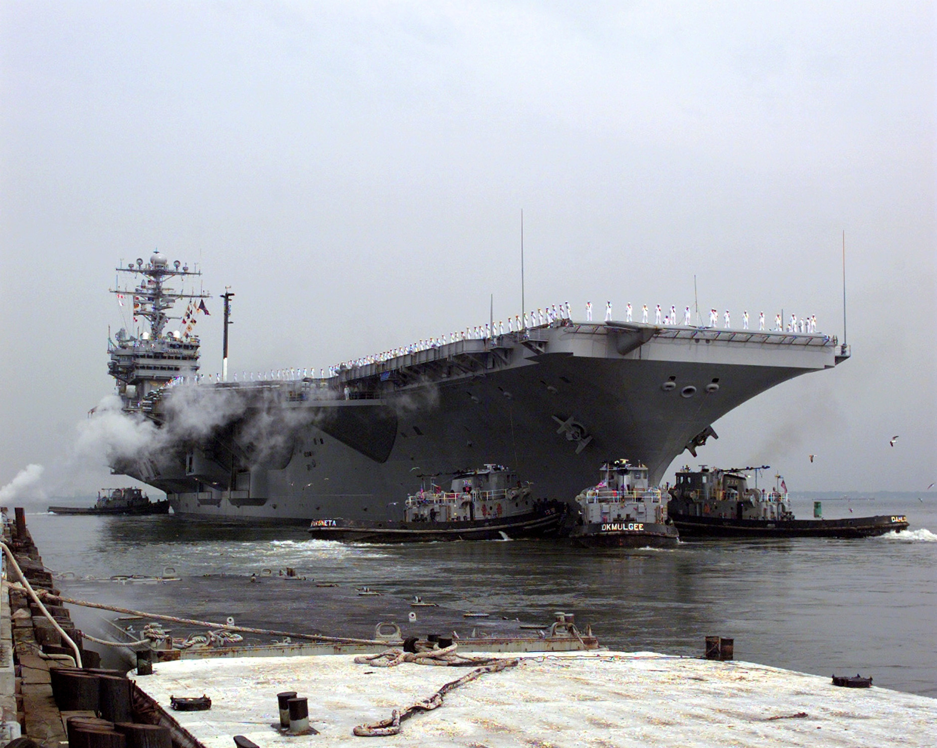 Norfolk, Va., June 10, 1998 — The aircraft carrier USS Dwight D. Eisenhower (CVN-69) gets a little shove out to sea as she departs for a scheduled six-month deployment to the Mediterranean. DoD photo by Petty Officer 2nd class Paul C. Thomas. (Released)